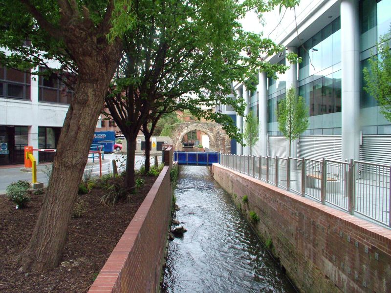 The Mill Arch spanning the Holybrook stream which used to drive the mill